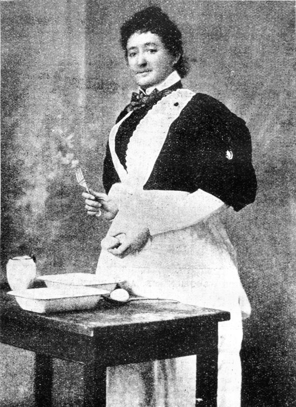 Mrs. Hannah Maclurcan, licensee of the Queen's Hotel and author of "Mrs. Maclurcan's Cookery Book: Practical Recipes Suitable for Australia". The first two editions were published in Townsville by T. Willmett & Sons in 1897 and 1898. She refurbished the Wentworth Hotel in Sydney and was perhaps the first Australian celebrity cookery writer (and perhaps also the first to be accused of passing off others' recipes as her own). Image from 1898.